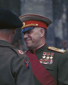 Allied officers in Berlin, probably in front of the Brandenburg Gate. Group includes Georgy Zhukov, Konstantin Rokossovsky and seen from behind Bernard Montgomery.